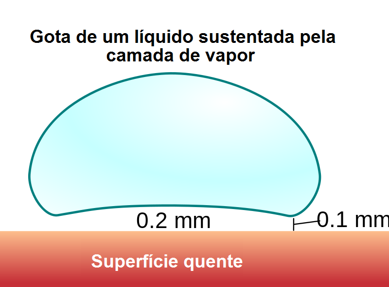 Drop Leidenfrost effect